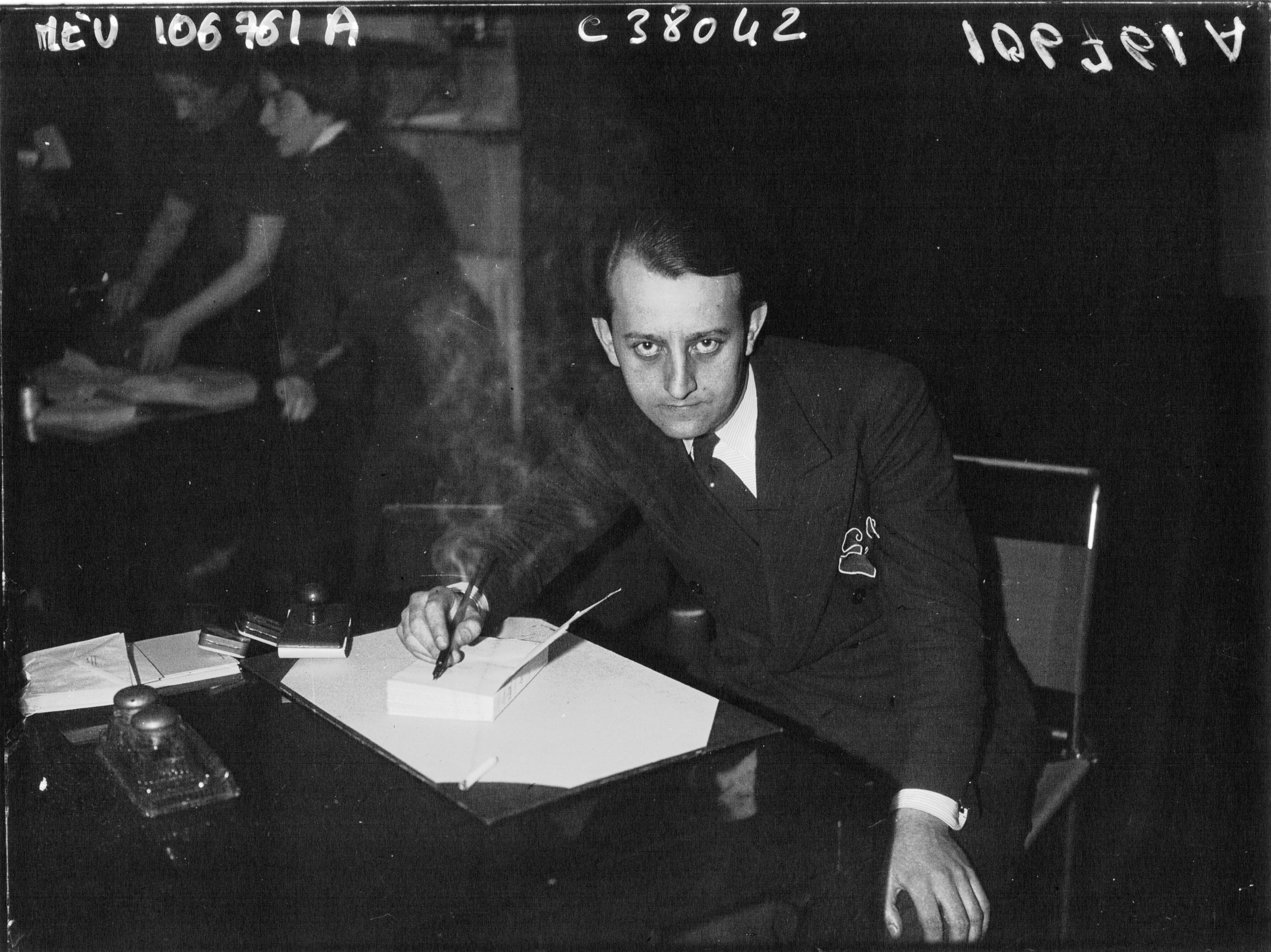 French writer André Malraux (1901-1976).